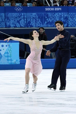 Tessa Virtue and Scott Moir at the 2014 Winter Olympics